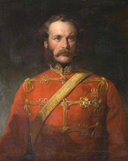 Portrait of General Sir Edward Harris Greathed